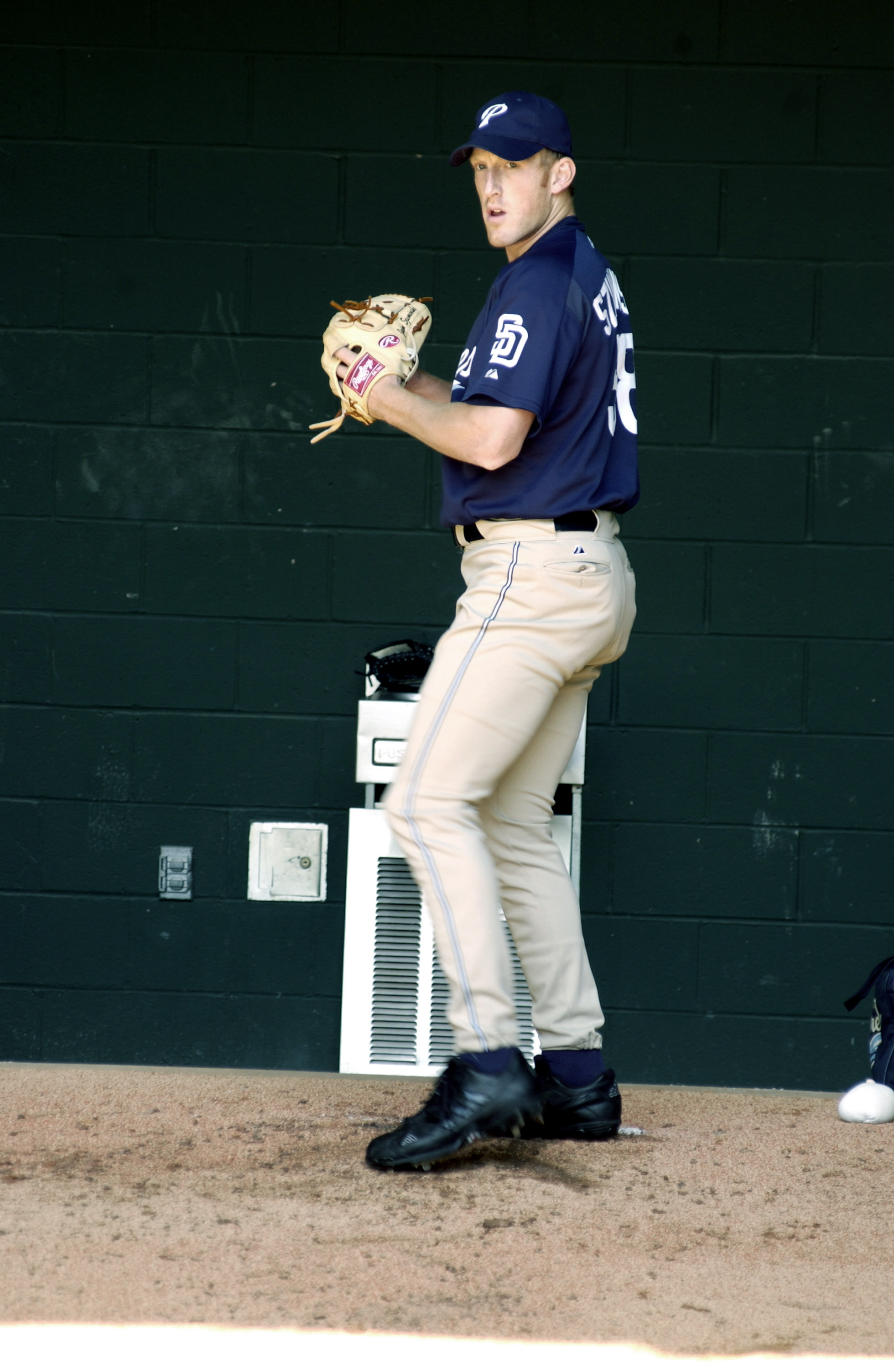 Jason Szuminski, relief pitcher for the San Diego Padres, warms up in the bullpen during a game here against the Braves. Lieutenant Szuminski is the only Air Force reservist in Major League Baseball.